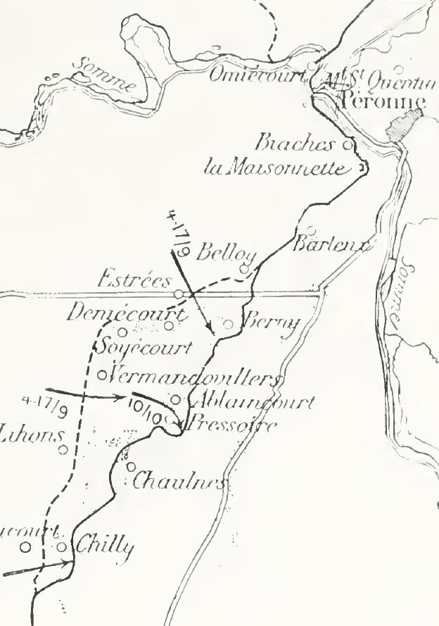 French operations, south bank of the Somme, 1916